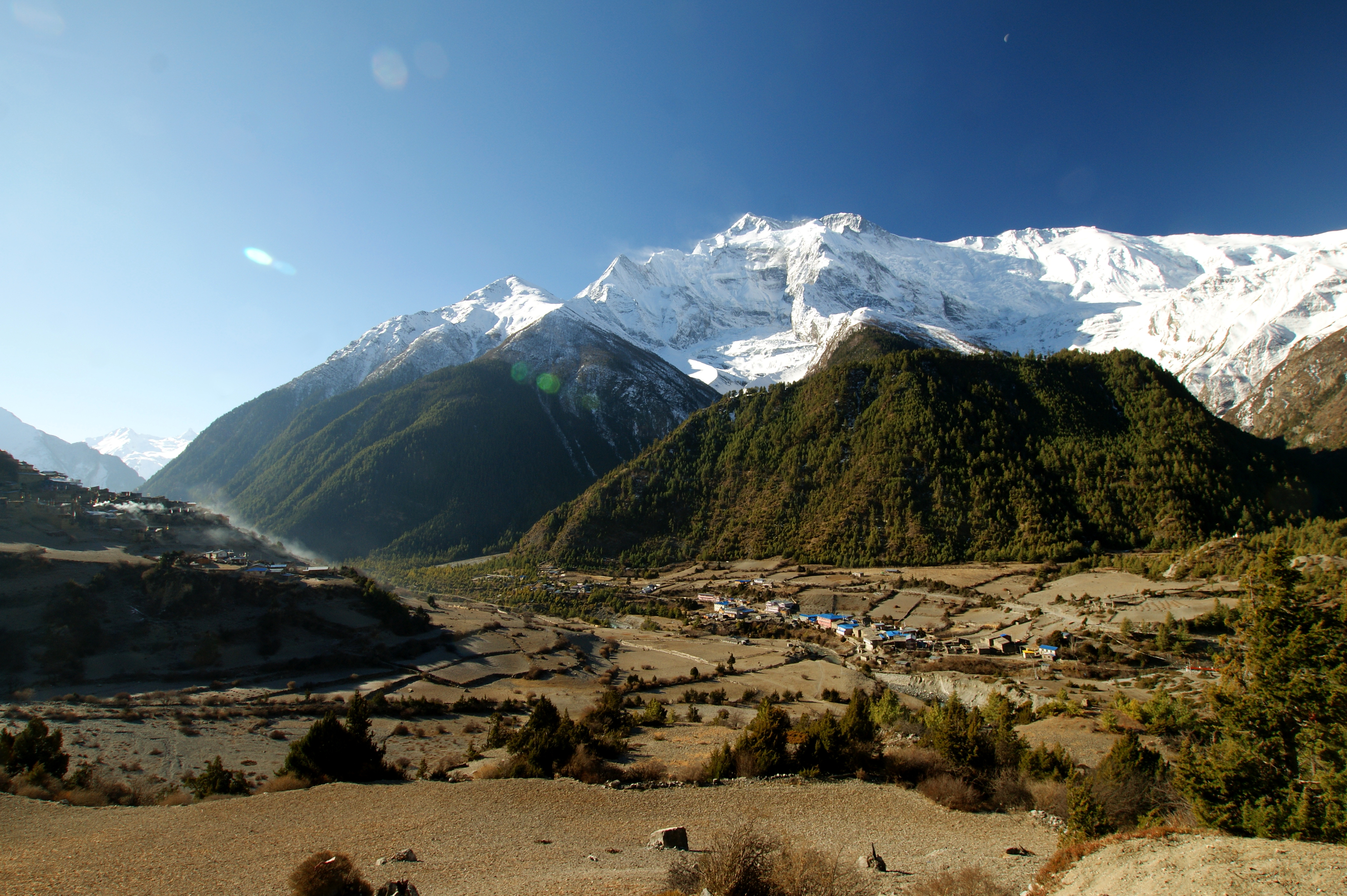 Upper Pisang (left side), Lower Pisang (middle), Annapurna II (background)